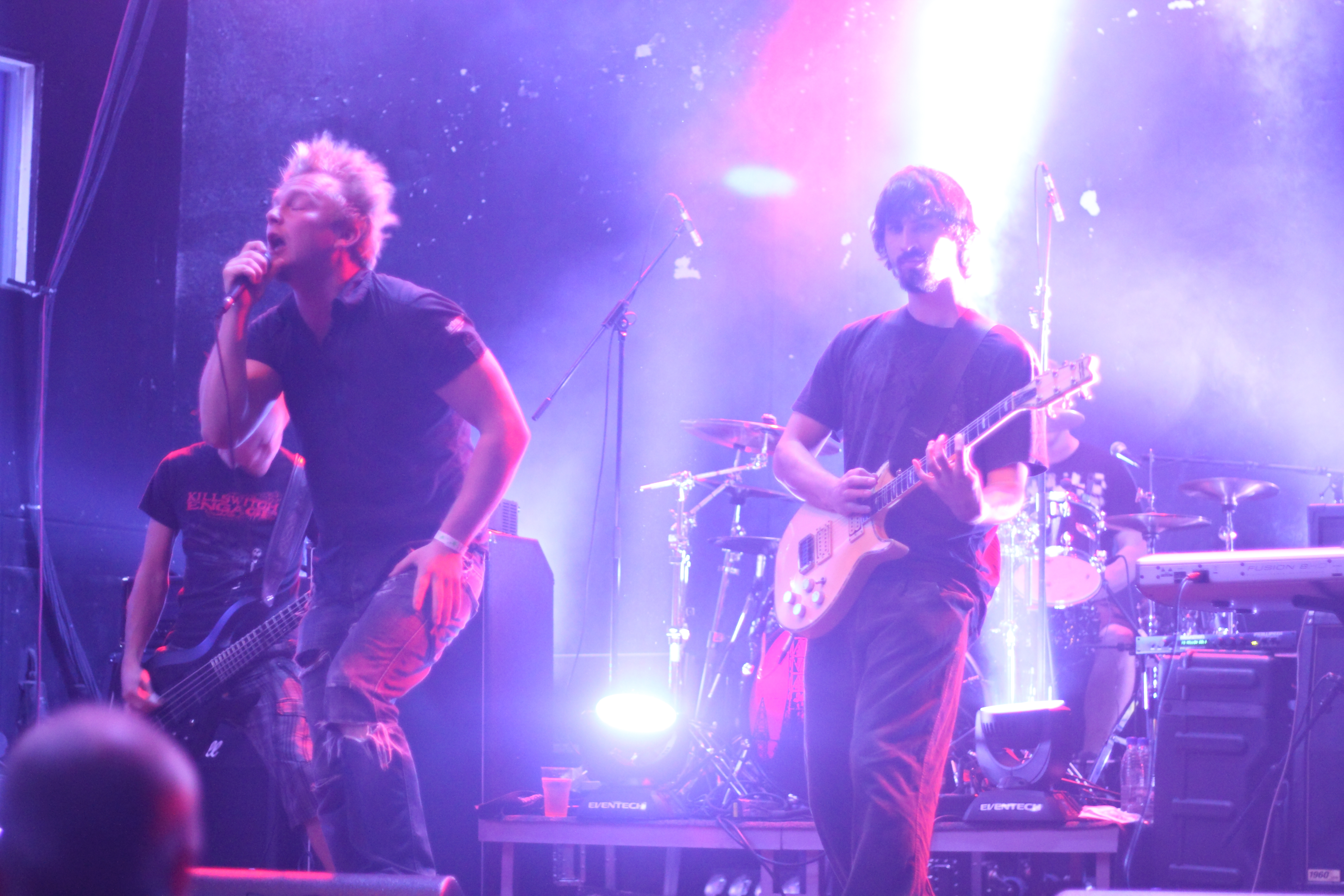 Estonian band Recycle Bin @ Rock Cafe, Tallinn.